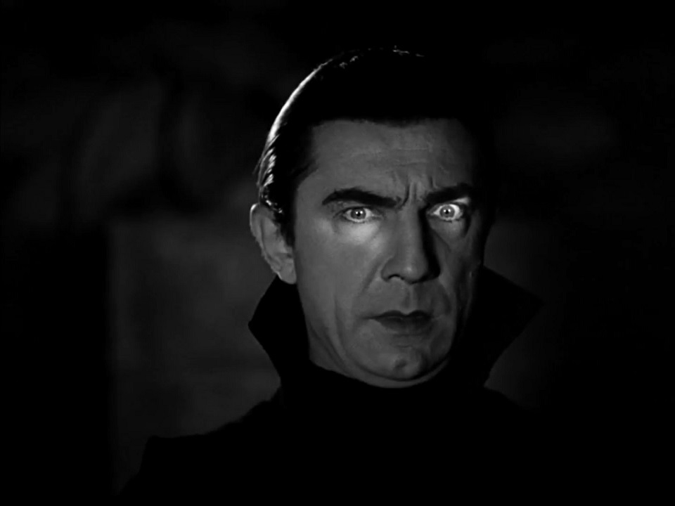 A screenshot from the trailer for Dracula